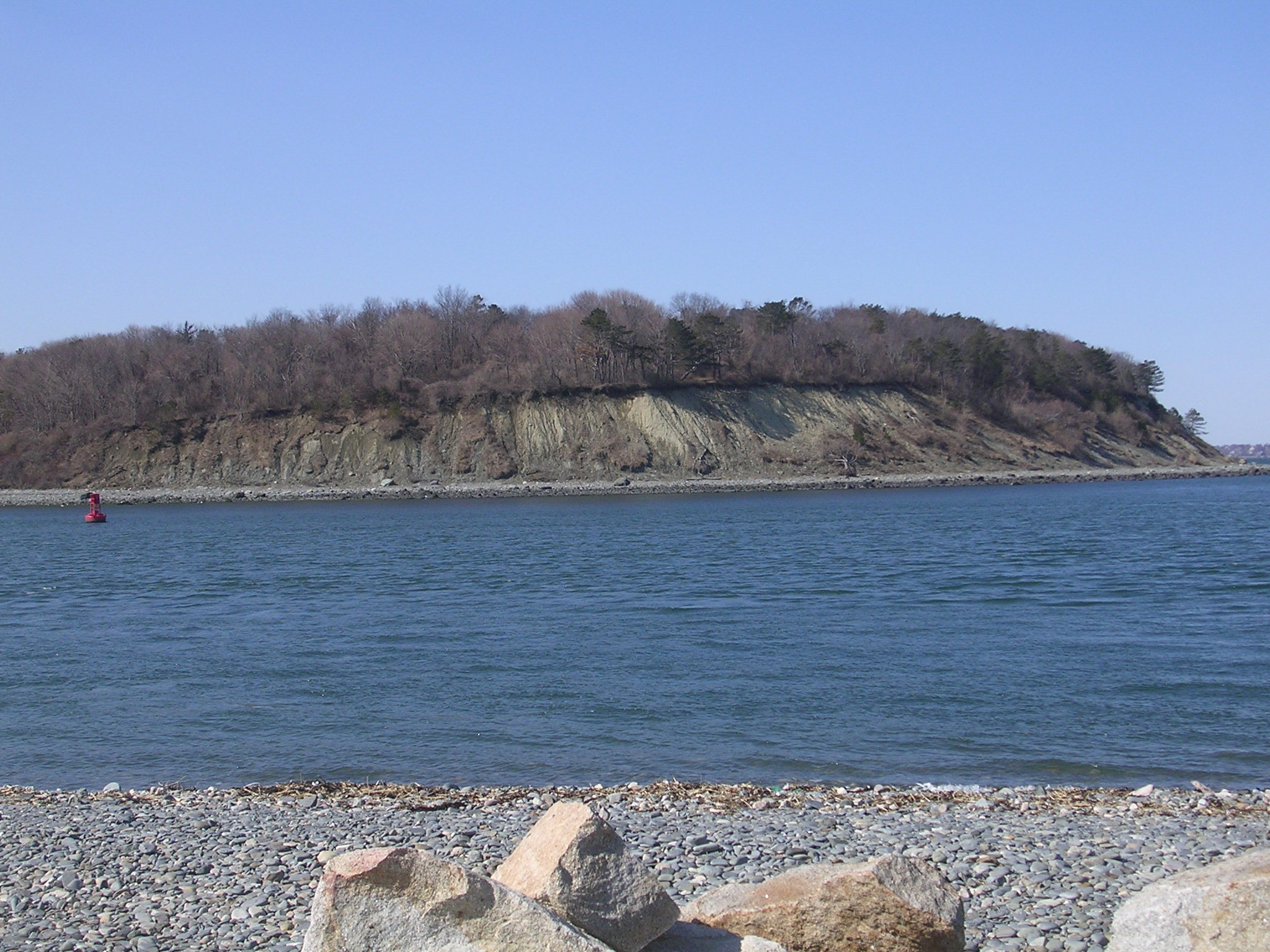 2008 photograph, view across Hull Gut in Massachusetts, presumably taken from Peddocks Island and showing Pemberton (the tip of the Hull peninsula)